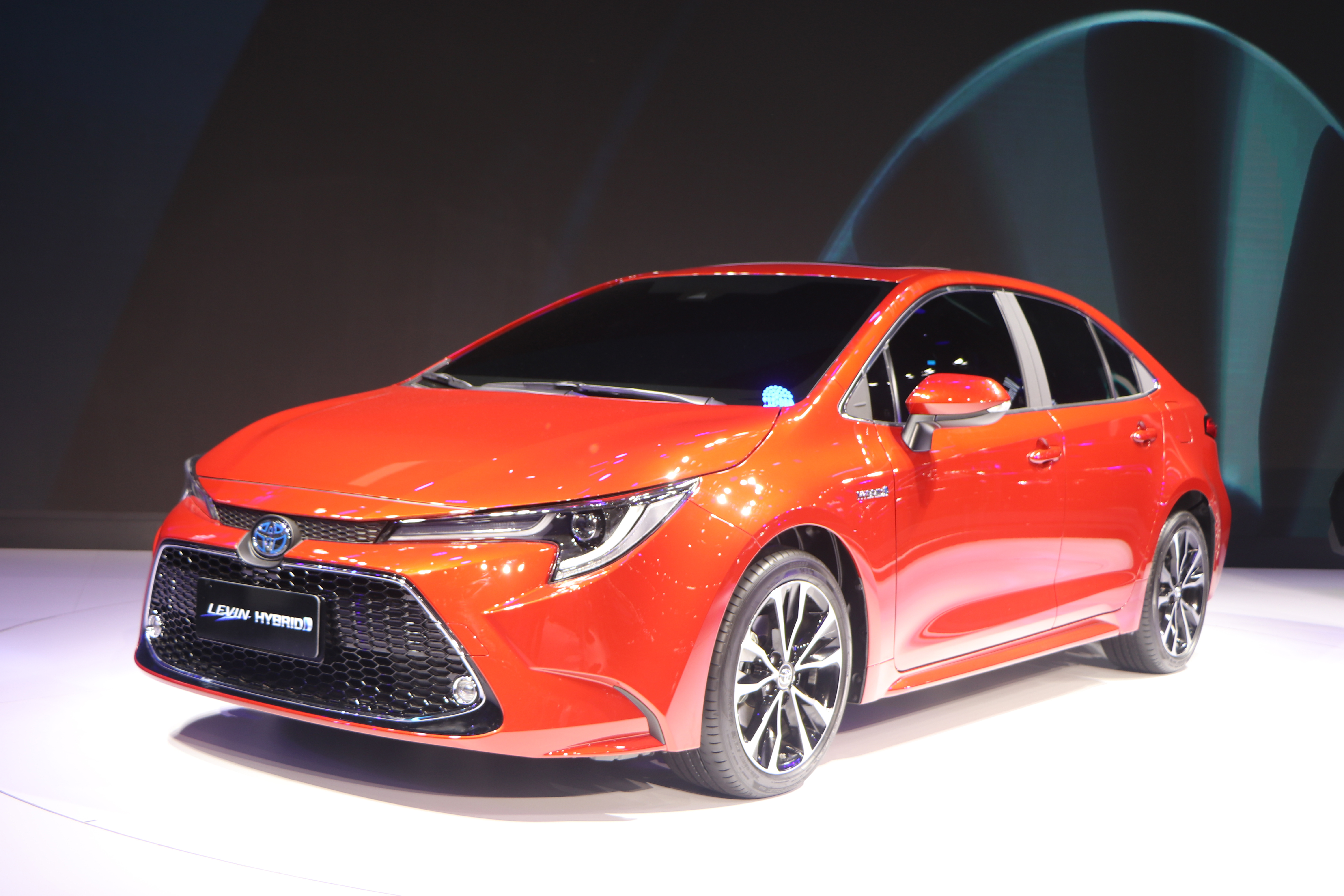 GAC Toyota Levin Hybrid E210